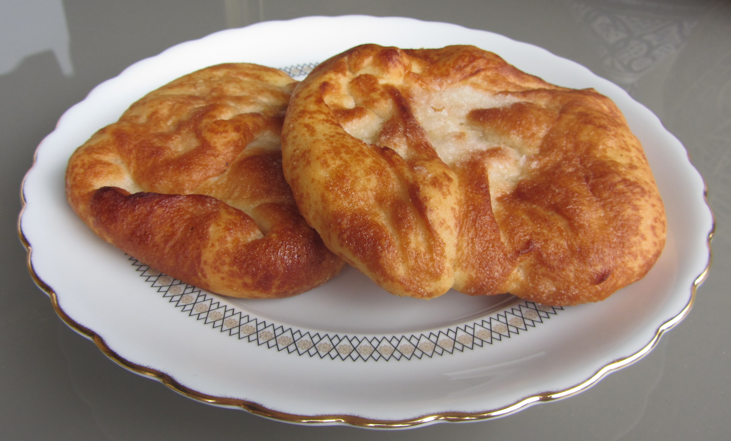 Cake "borracho" typical Vellisca (Province of Cuenca - Spain).